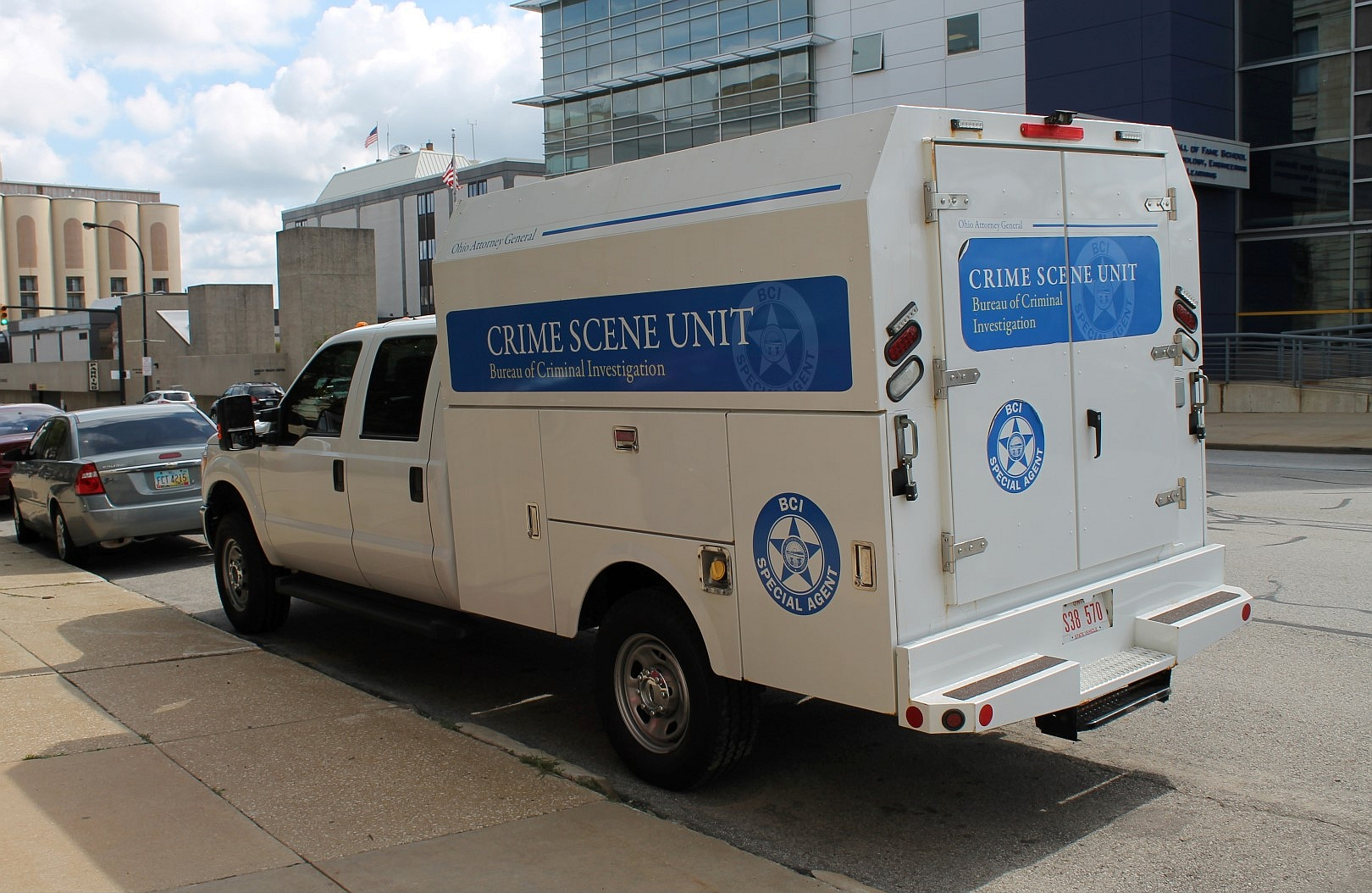 Crime Scene Unit vehicle, Ohio Bureau of Criminal Identification and Investigation.